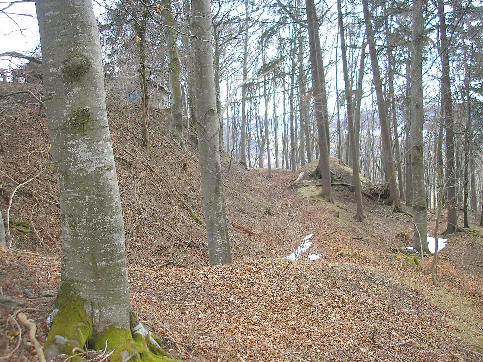 Early Middle Ages hill fort near Romatsried (Eggenthal, Landkreis Ostallgäu, Bavaria, Germany). The western earthworks, looking south